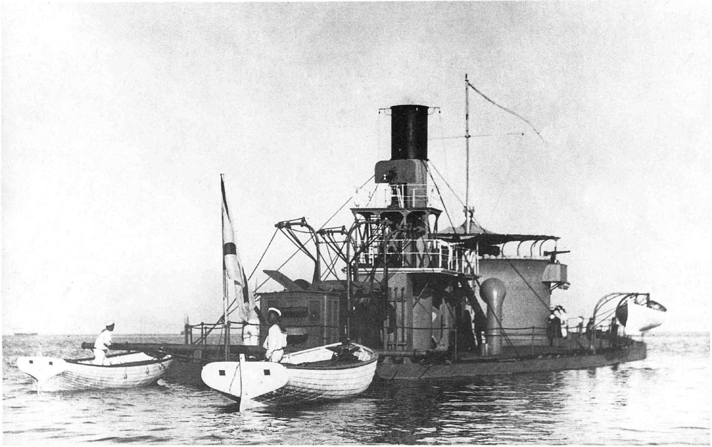 Imperial Russian turret armour-clad boat Tifon.